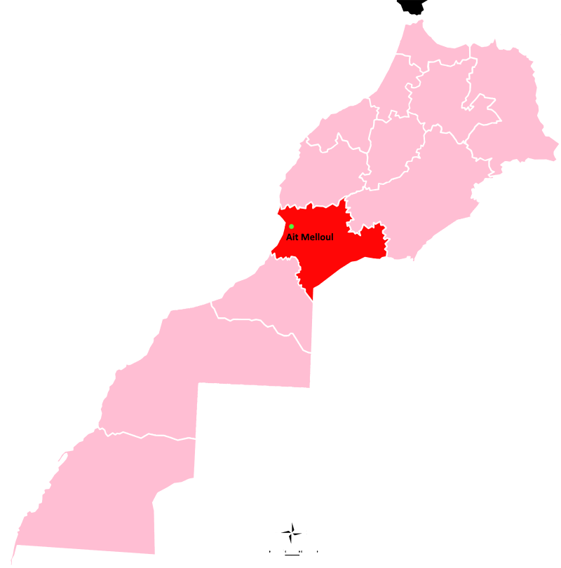 Ait Melloul in Souss Massa map